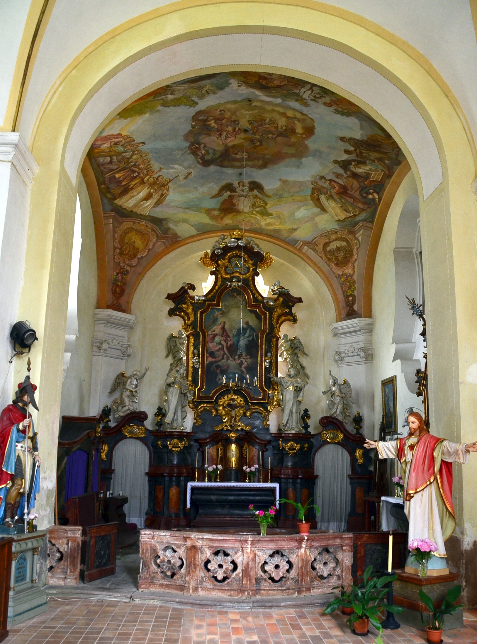 Chapel of the holy Trinity